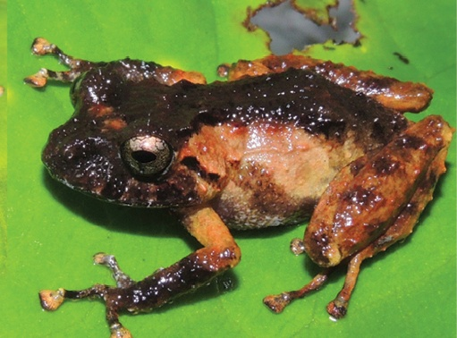 Lateral view of a female of Pristimantis ashaninka